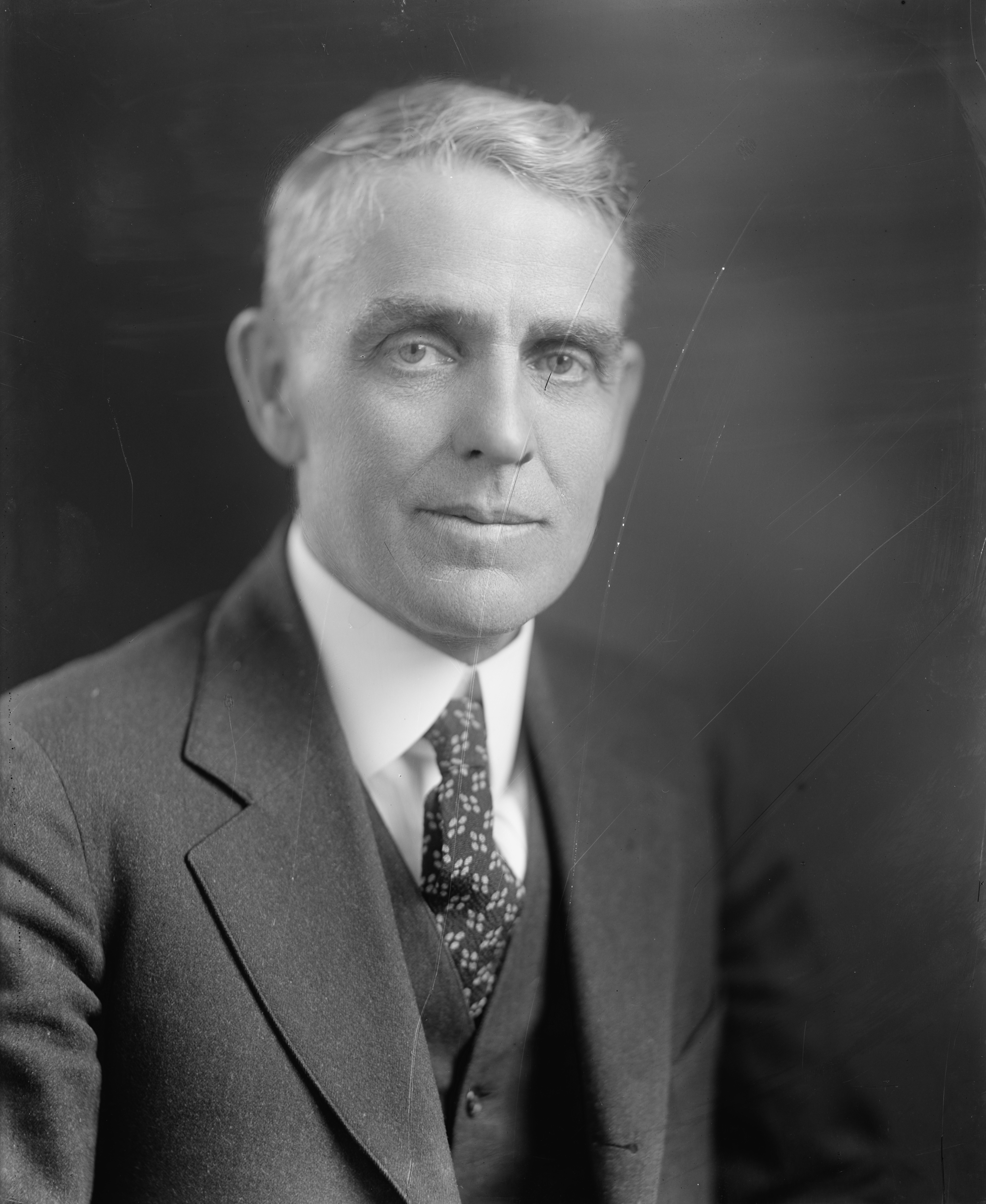 Title: CAPPER, ARTHUR C. SENATOR Abstract/medium: 1 negative : glass ; 8 x 10 in. or smaller